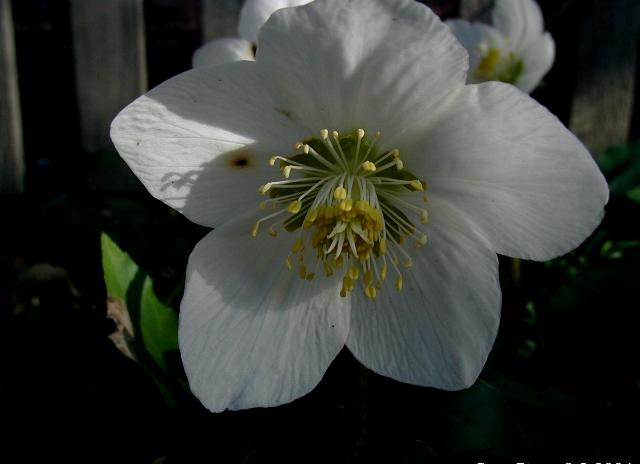 Helleborus niger. Close-up on flower.